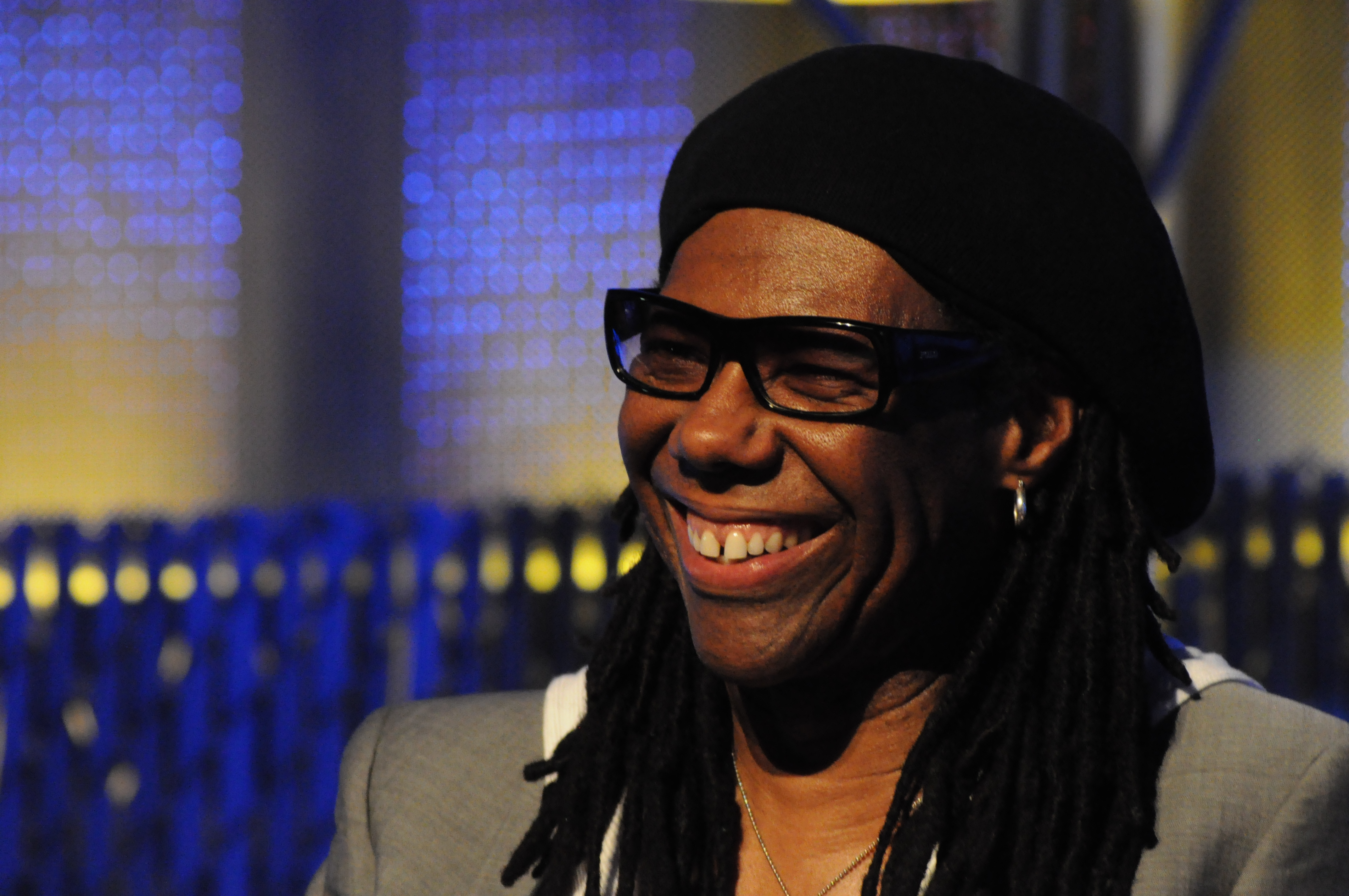 Nile Rodgers on the keynote panel of the 2010 Pop Conference, EMPSFM, Seattle, Washington.